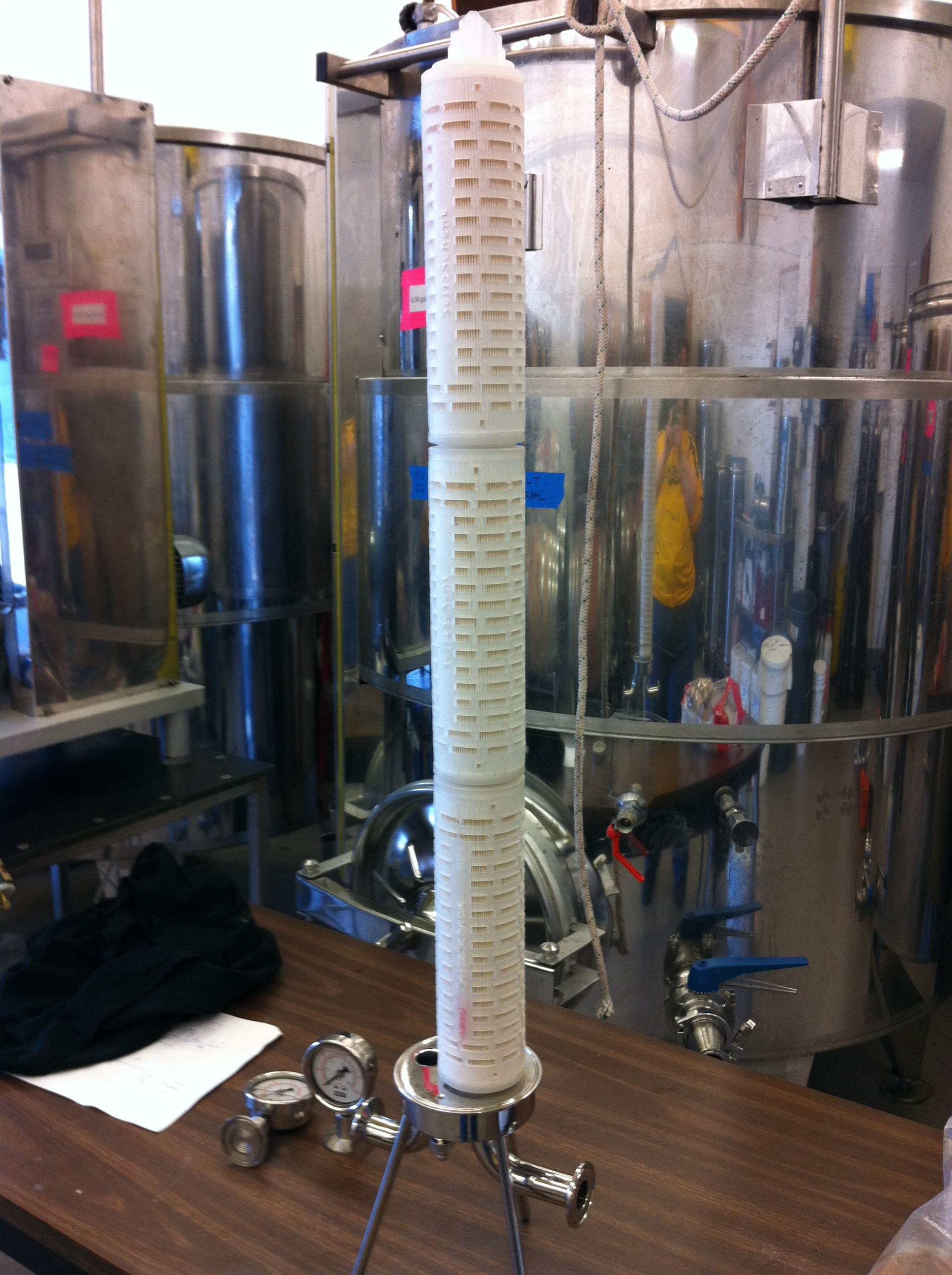 A three cartridge membrane filter being prep for wine filtration. Before being used, a metal housing will cover the cartridges.